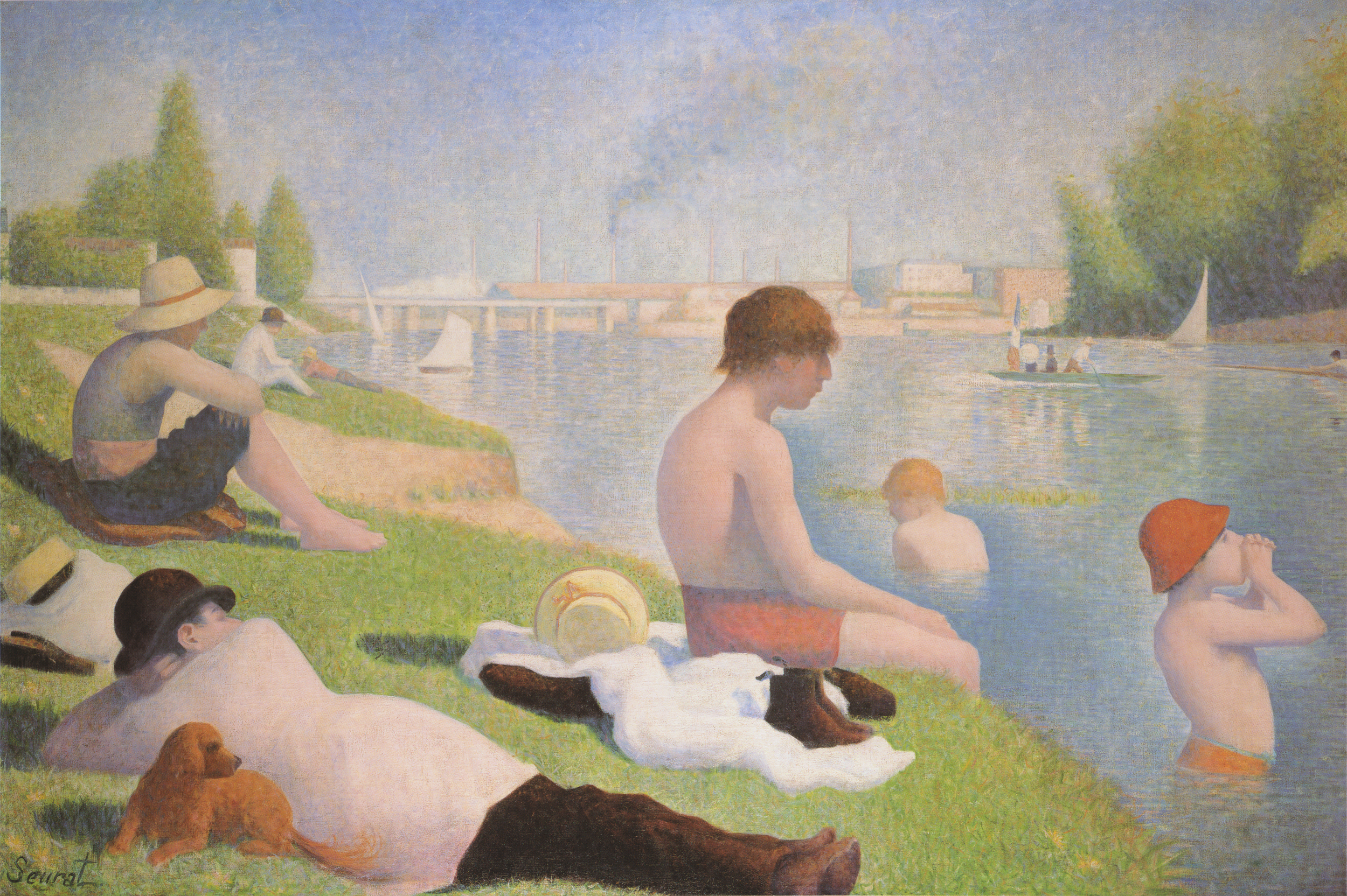 Bathers at Asnières, Georges Seurat, 1884.